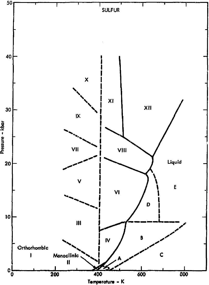 These 1975 phase diagrams are generally incomplete, reaching at most 250 kbar (25 GPa) and thus lacking many high-pressure metallic phases. Taken from "Phase Diagrams of the Elements", David A. Young, UCRL-51902 "Prepared for the U.S. Energy Research & Development Administration under contract No. W-7405-Eng-48". From the document, "DISTRIBUTION OF THIS DOCUMENT IS UNLIMITED"; printed copies were available from the National Technical Information Service. Note that the paper describes a "confused situation" and disagreements among sources on high pressure phases in 1975; for many uses a more modern source is recommended.